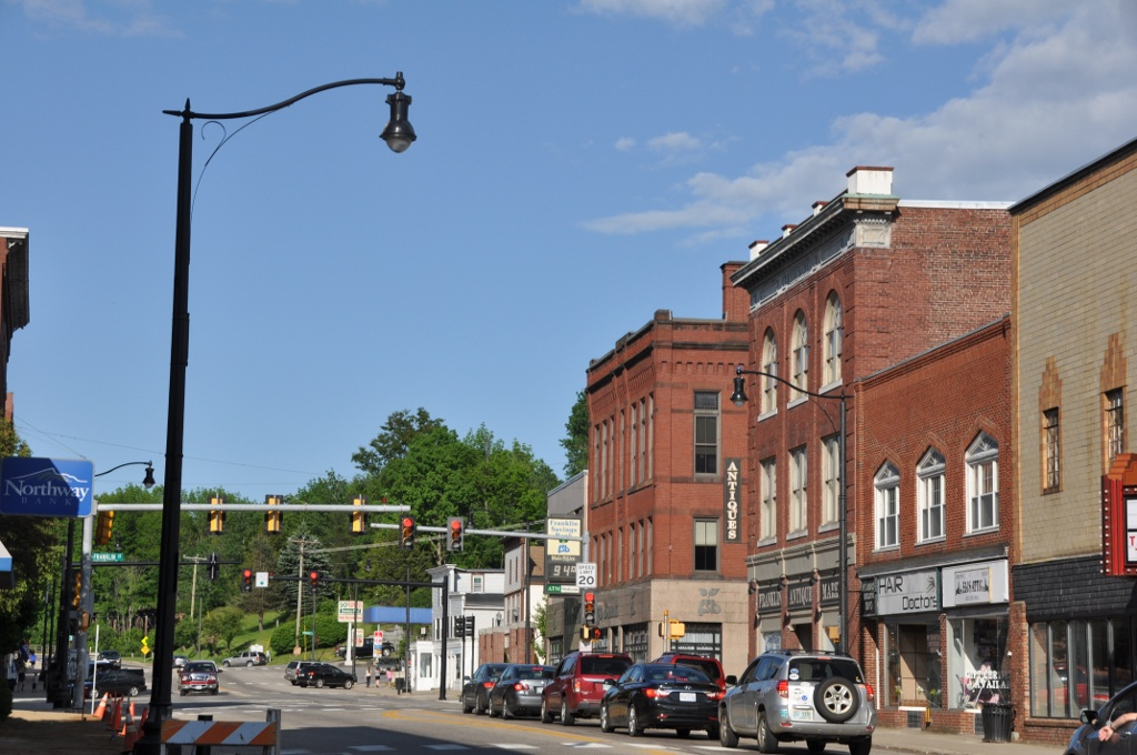 Central Street (Route 3) in downtown Franklin, New Hampshire; part of the Franklin Falls Historic District.